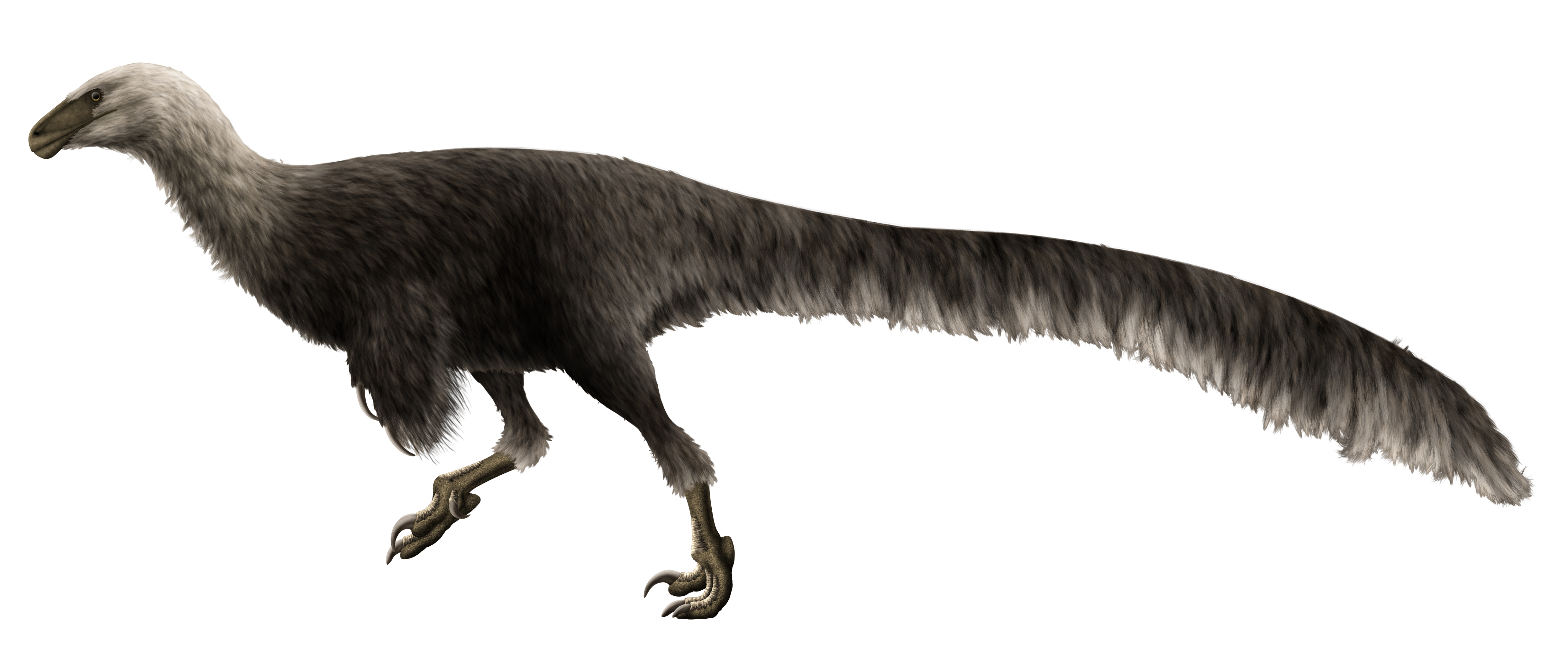 Artistic and updated reconstruction of Ornitholestes.